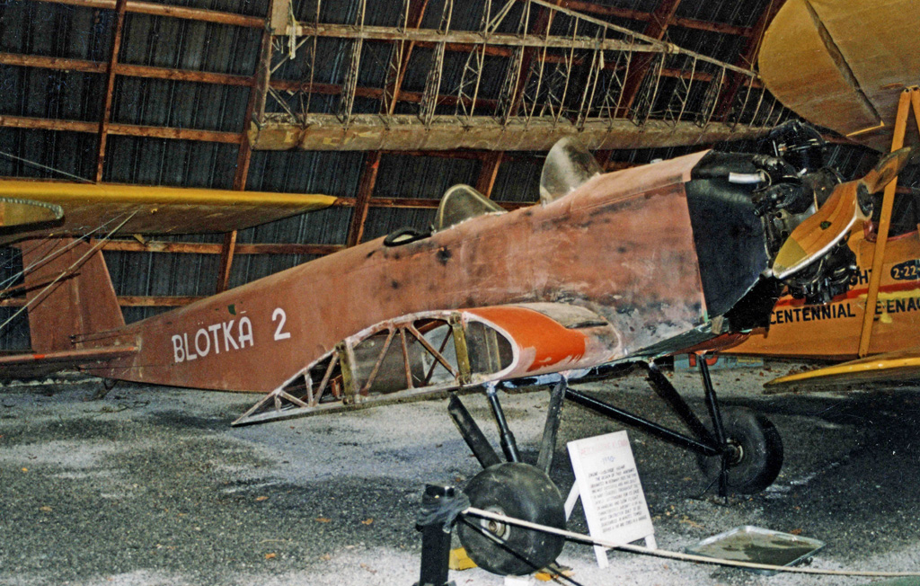 Klemm L-26 (Aeromarine-Klemm AKL-26) NC320N "Blotka 2" under restoration at the Rhinebeck Aerodrome Museum in New Yok State in 2005